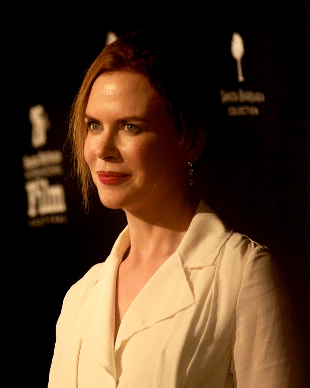 Actress Nicole Kidman at the 2011 Santa Barbara International Film Festival.